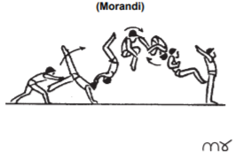 Illustration of the Morandi Skill